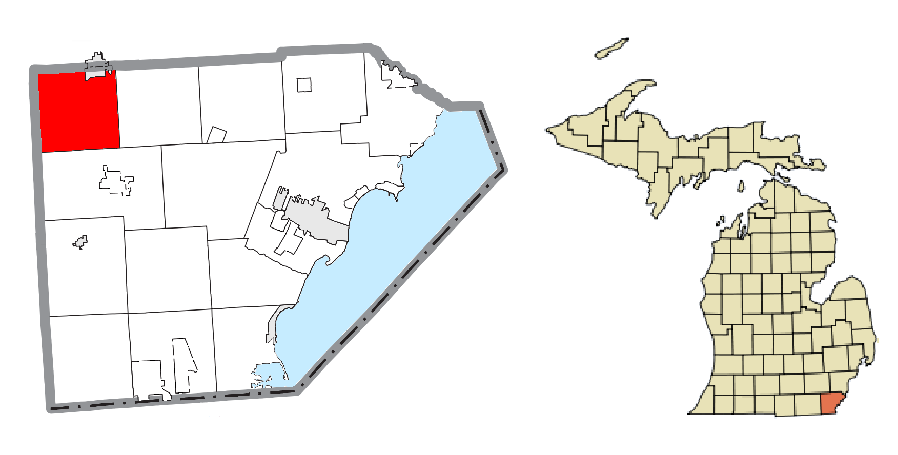 Milan Township, MI